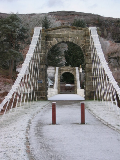 Bridge of Oich A cold frosty morning for the suspension bridge over the River Oich